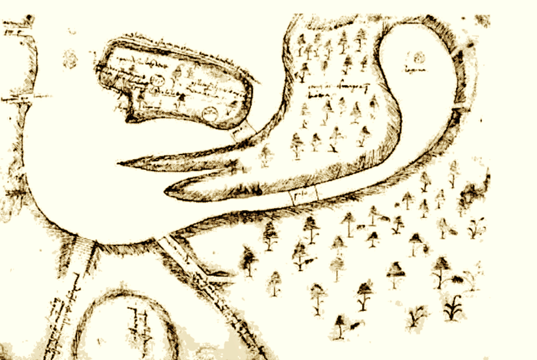 1519 Lic. Rodrigo de Figueroa Sketch of the Villa de Puerto Rico in anticipation to the transfer of Caparra's residents to the harbor.